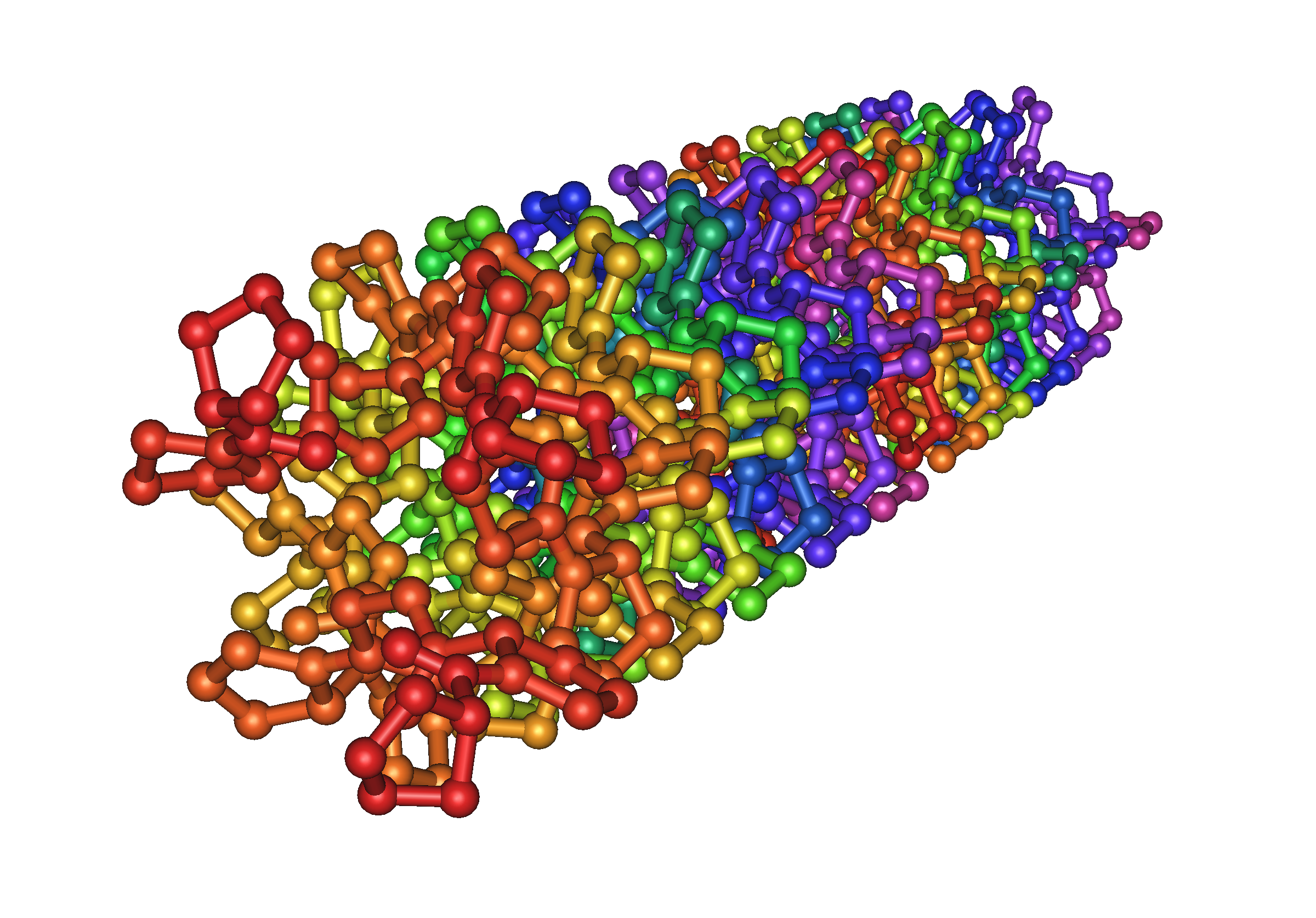 1K6F_Crystal Structure Of The Collagen Triple Helix Model Pro- Pro-Gly103